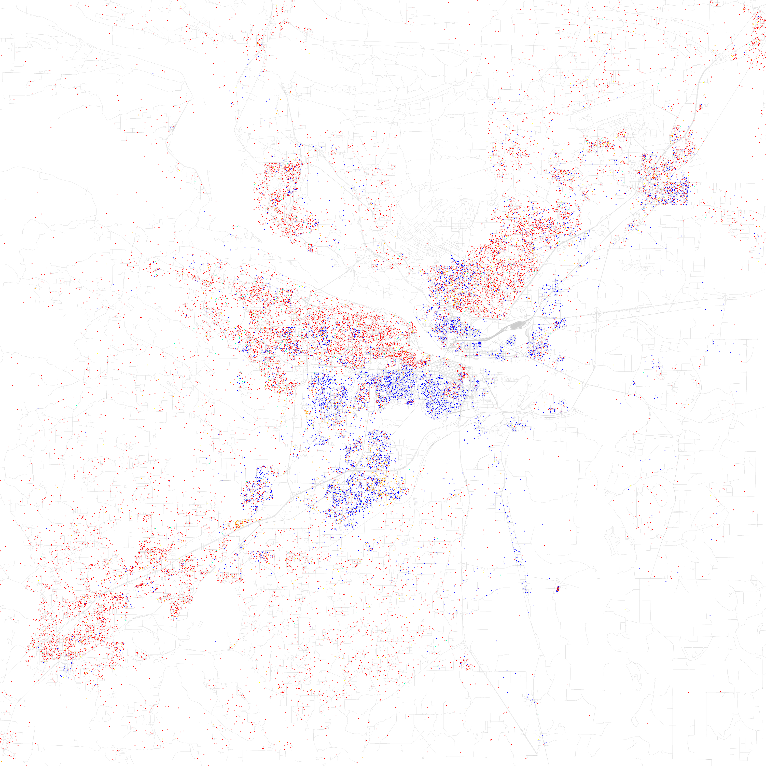 Maps of racial and ethnic divisions in US cities, inspired by Bill Rankin's map of Chicago, updated for Census 2010. Red is White, Blue is Black, Green is Asian, Orange is Hispanic, Yellow is Other, and each dot is 25 residents. Data from Census 2010. Base map © OpenStreetMap, CC-BY-SA